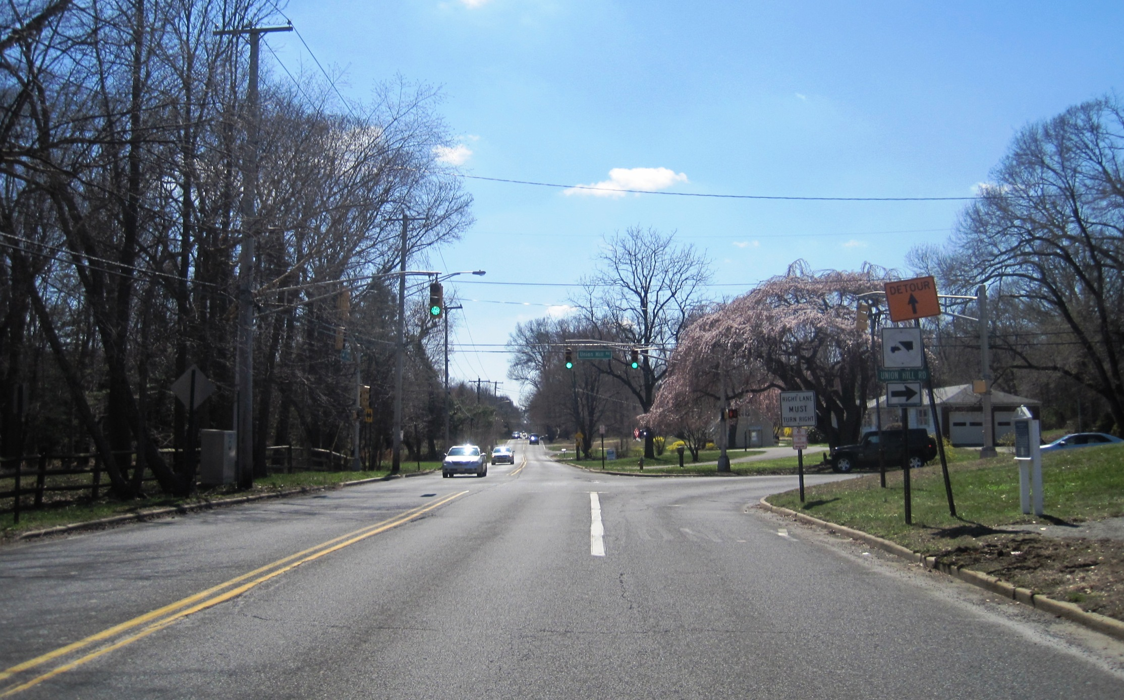 Photo of Robertsville, New Jersey, an unincorporated community within Marlboro Township. Photo taken looking south along Tennent Road (County Route 3) at Union Hill Road.